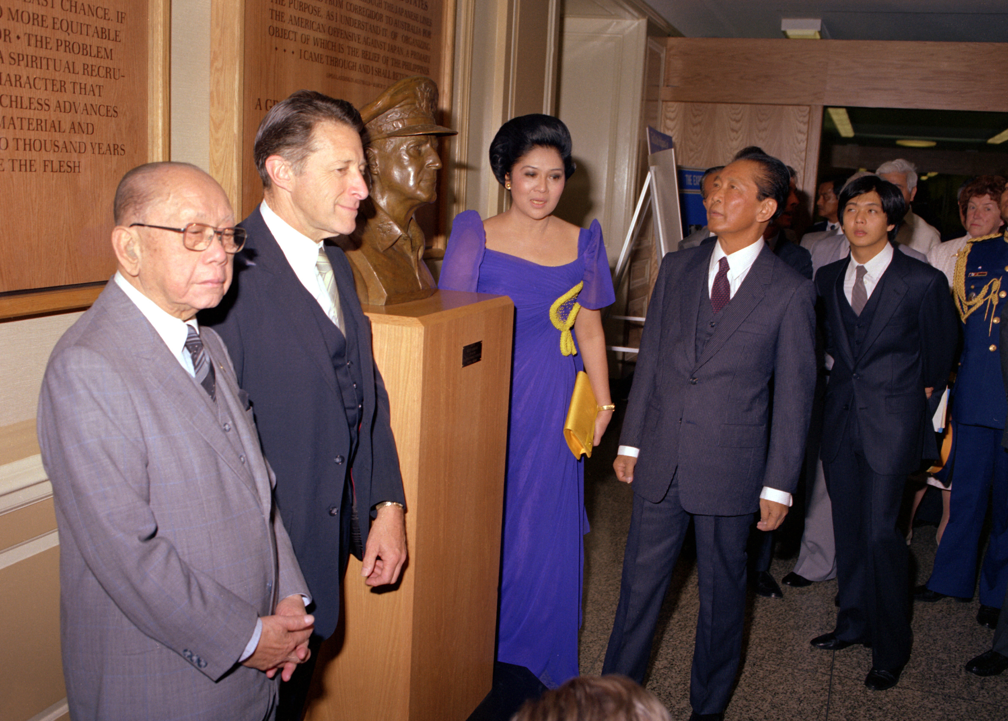 Secretary of Defense Caspar W. Weinberger and President and Mrs. Marcos of the Philippines during ceremonies in the Pentagon's Center Court.